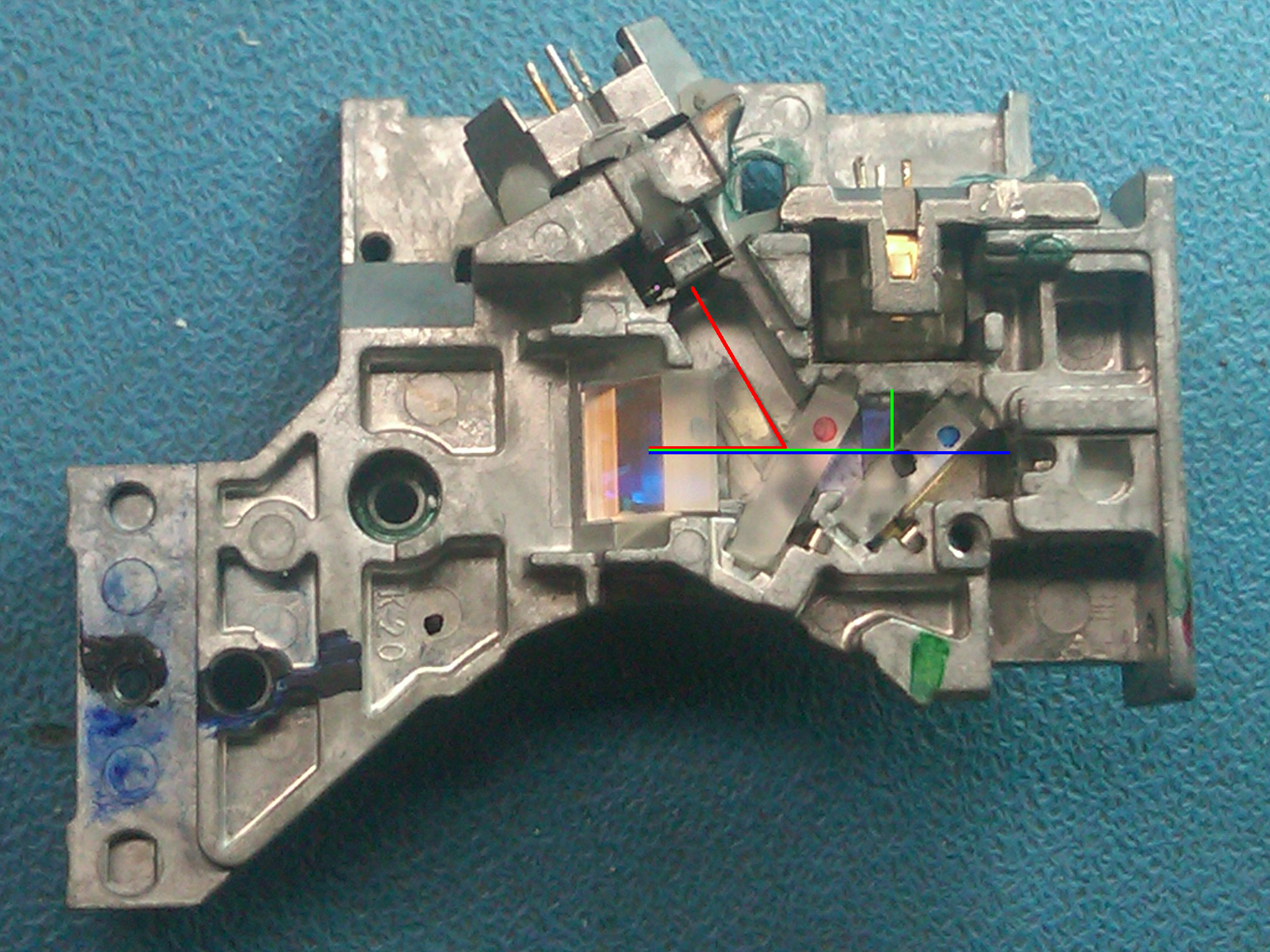 Internal optics of a DVD-RW read/write head, detailing the path of the various light beams. Red = High-intensity record laser (to disc)Green = Low-intensity read laser (to disc)Blue = Reflected light from disc (to optical sensor) Note the crystal at center frame is angled at 45 degrees, sloping up out of the picture and to the right. This reflects all three beams down into the picture (through the carriage) to the surface of the disc (which would normally be located where the blue mat is). The optical sensing chip (which converts the reflected beam into electrical signals) would normally be affixed to the right side of the carriage. There is also a lens (not shown) on the other side of the carriage which is mounted to a voice-coil assembly, allowing it to move up and down and thus changing the focal point of the beams.